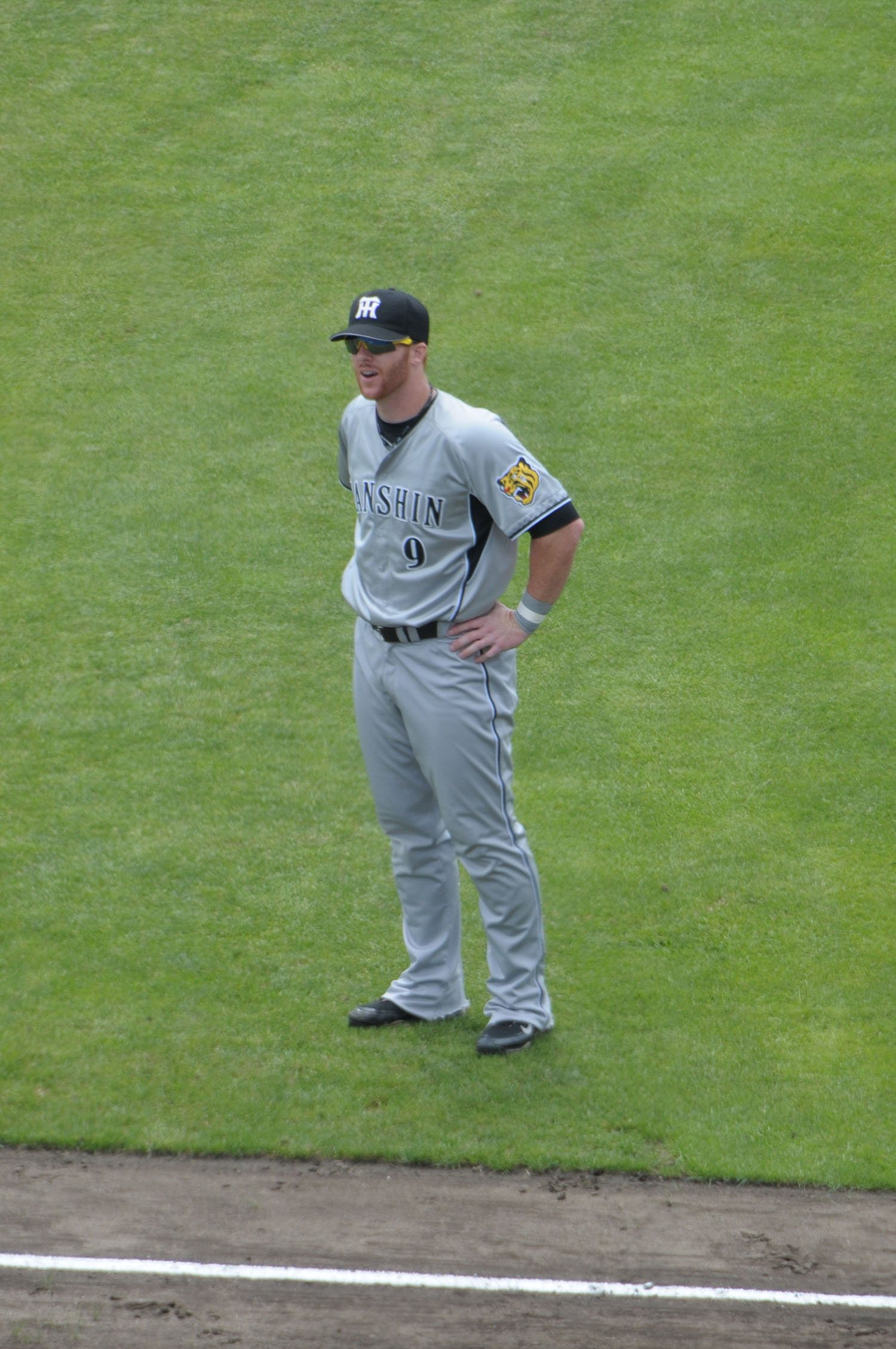 Matt Murton, outfielder of the Hanshin Tigers, at Akita Prefectural Baseball Stadium.